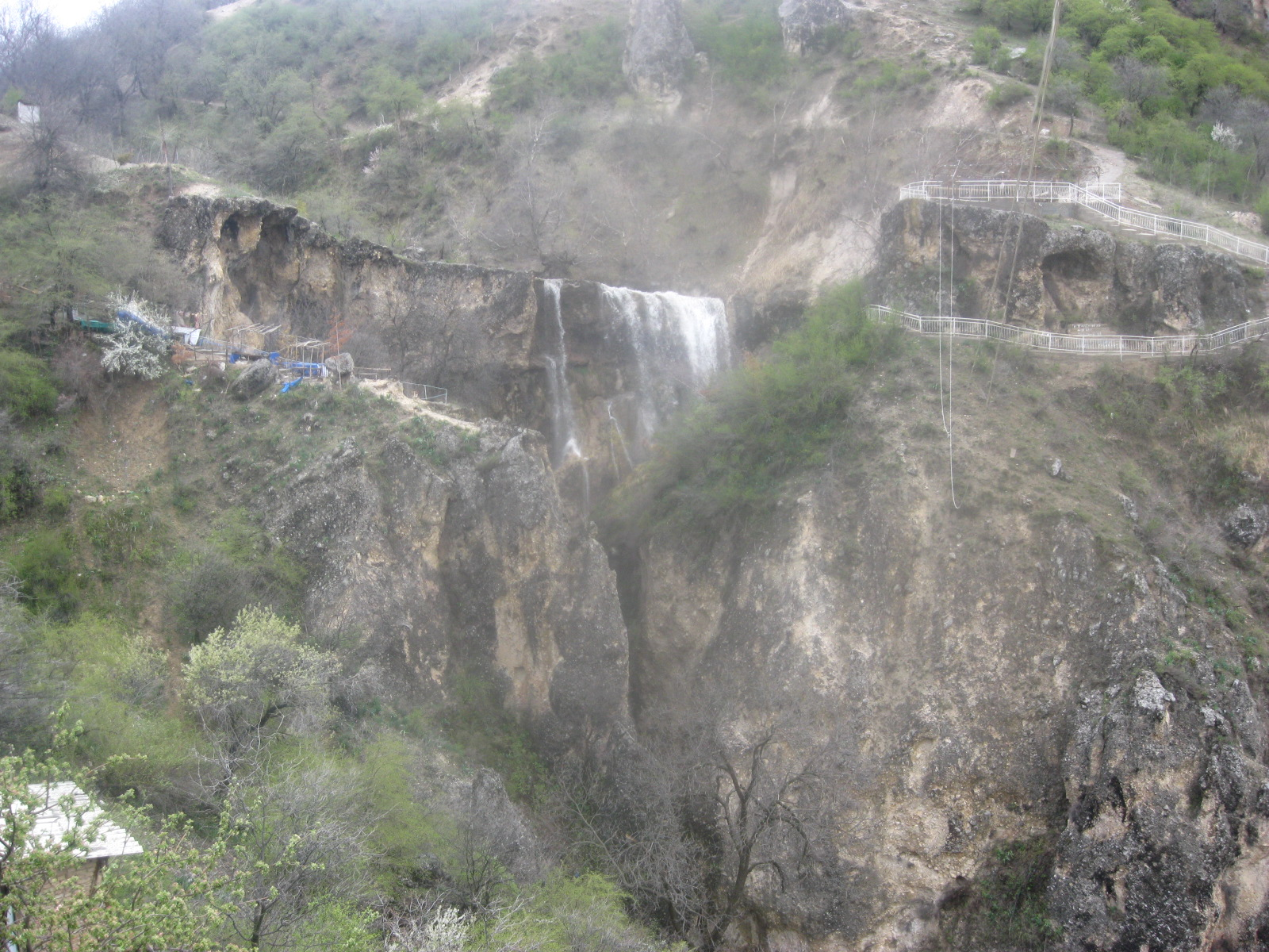 Arslanbob.